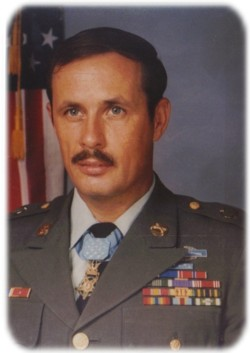 1SG Nicky D. Bacon This file is free content and was scanned by the family of Nick Bacon from an image of their own creation in 2014 and is used with their permission. It has no copyright and is thus free to be used as public domain/free use.